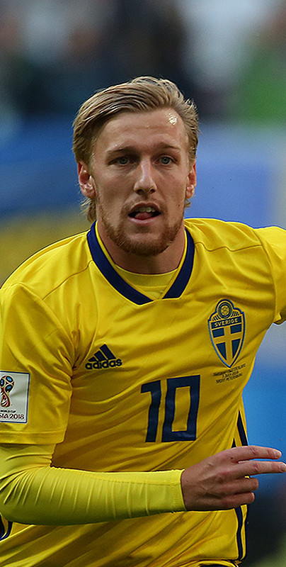 Forsbeg at 2018 FIFA World Cup